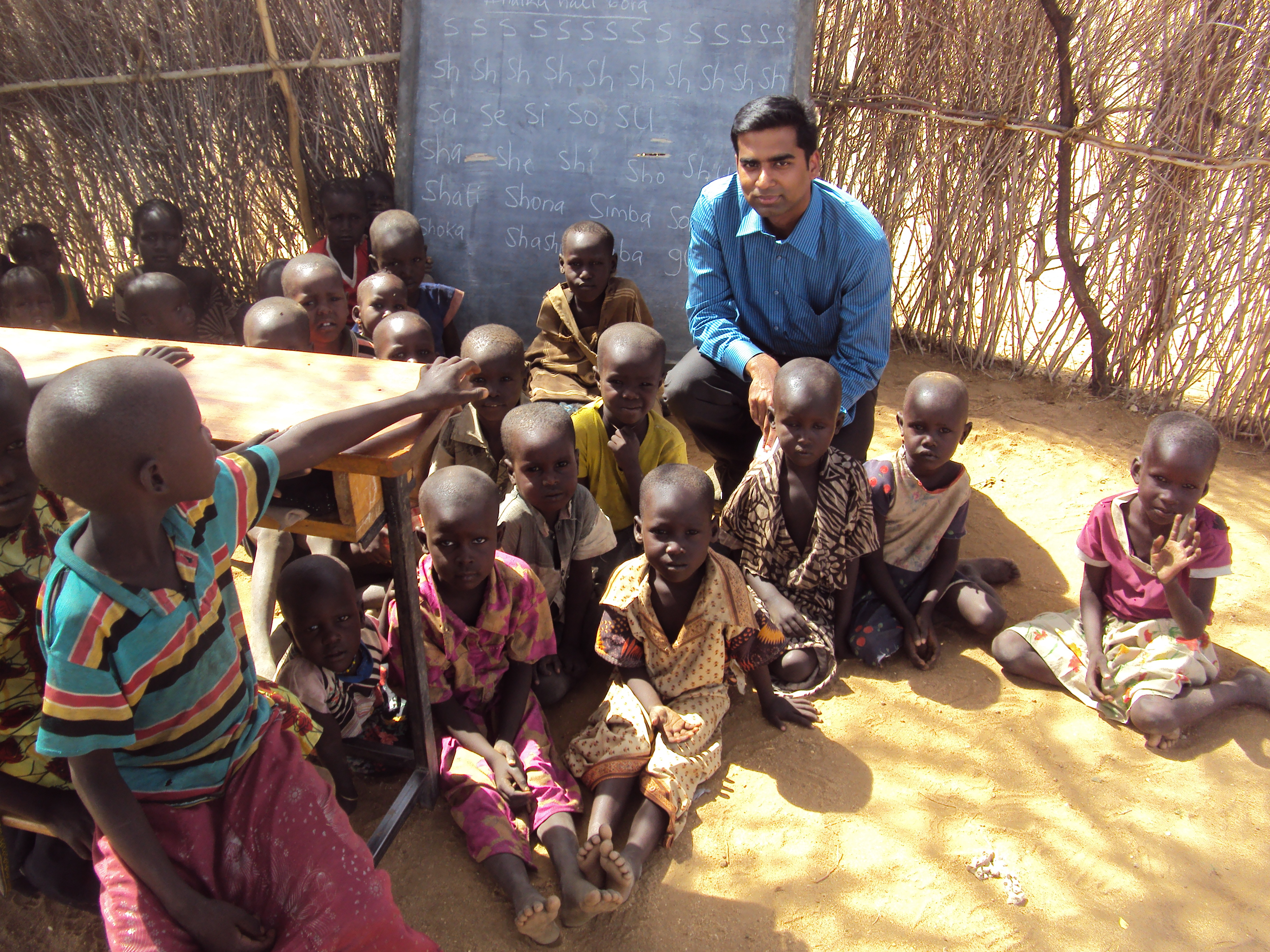 Vasu, a Pragya worker/volunteer, on a recent Kenya visit